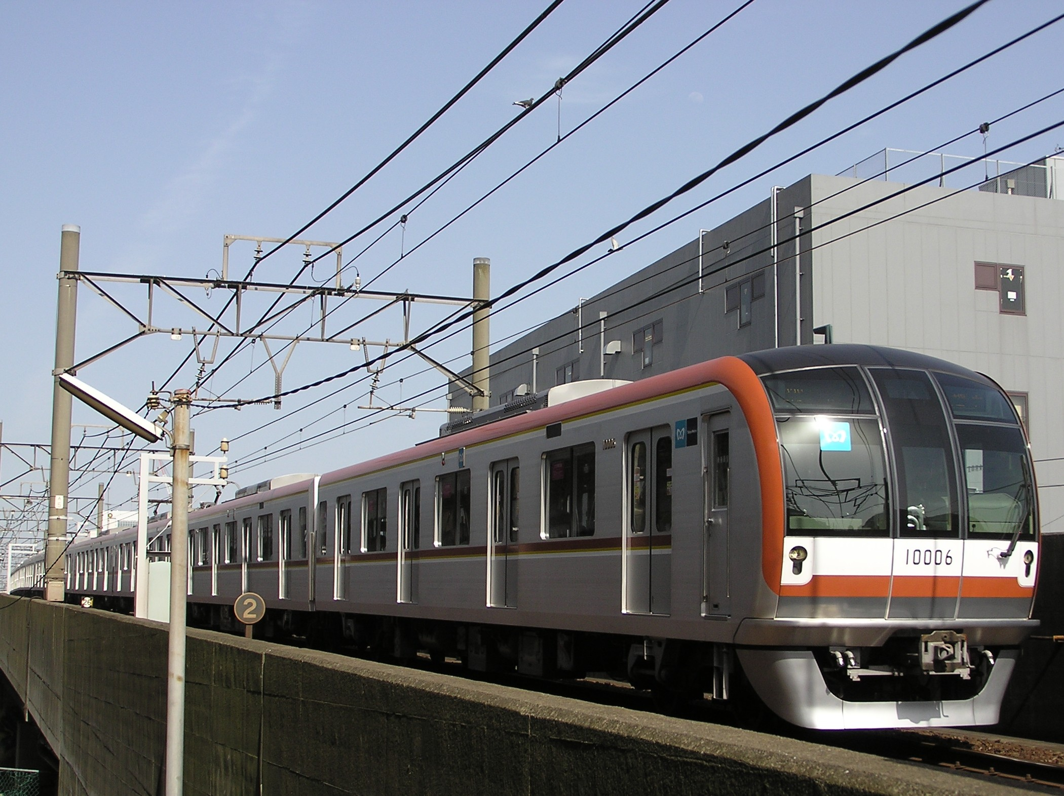 撮影地 Place of photo新木場～辰巳撮影の状況 How to take公道から撮影 At public roadトリミングの有無 Cropped or notトリミング Cropped内容 Description東京地下鉄10000系10106F Tōkyō Metro 10000 series